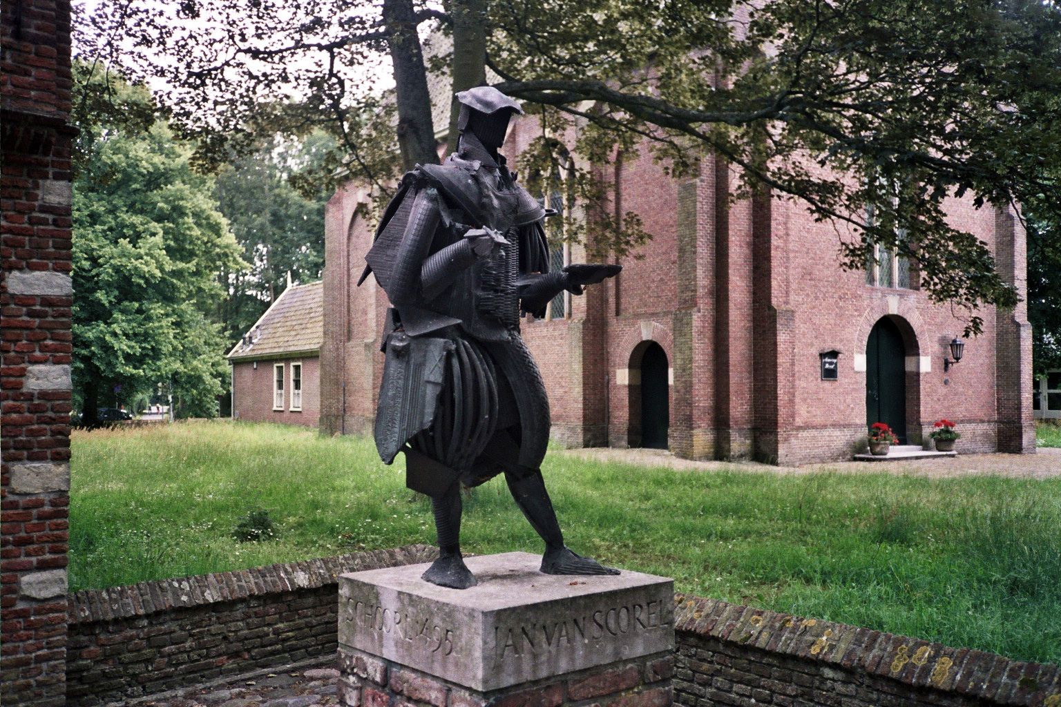 Statue Jan van Scorel made by Elly Baltus in 1986, Schoorl, The Netherlands